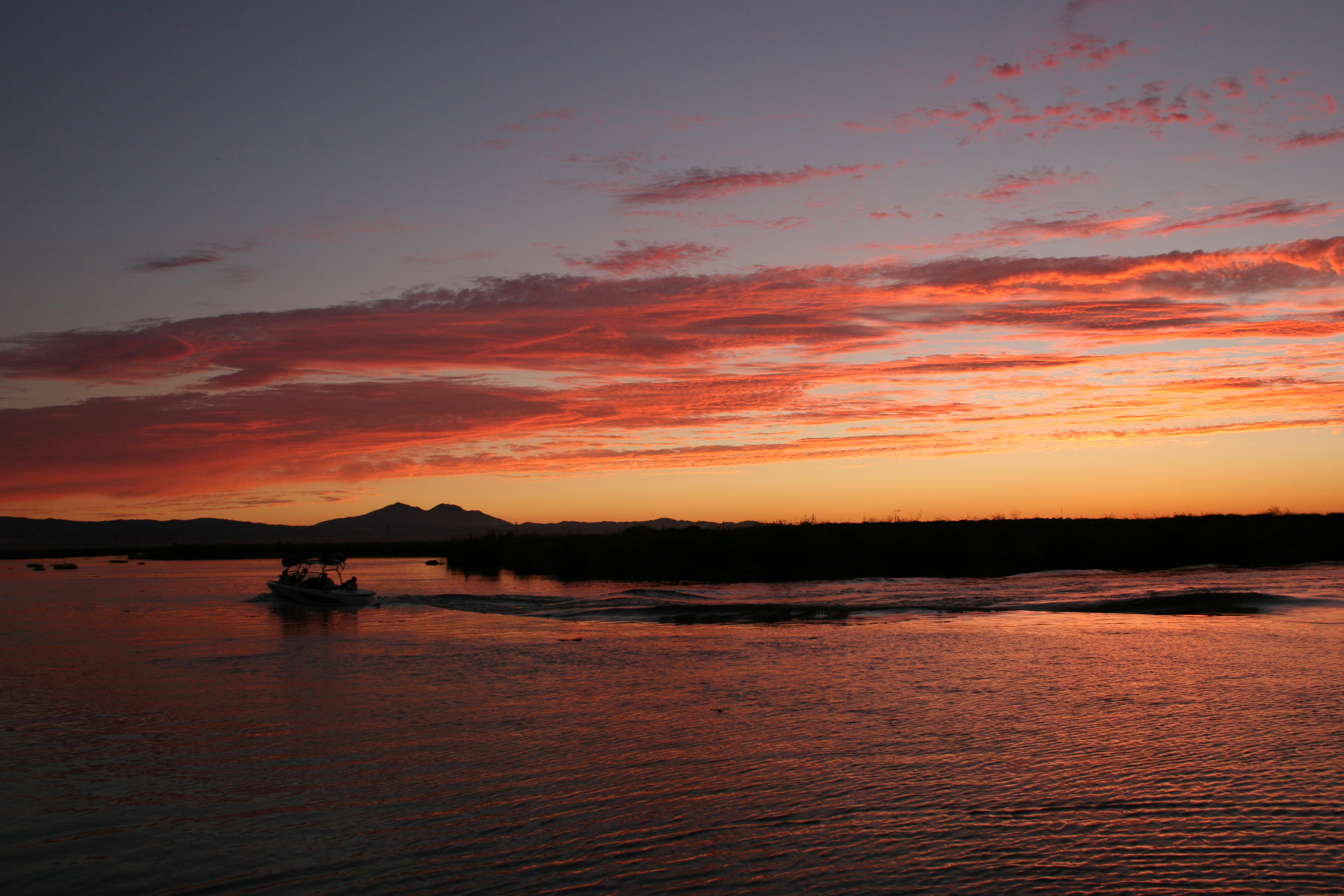 Sunset on Mildred Island in the Sacramento-San Joaquin River Delta of California. With view of Mount Diablo